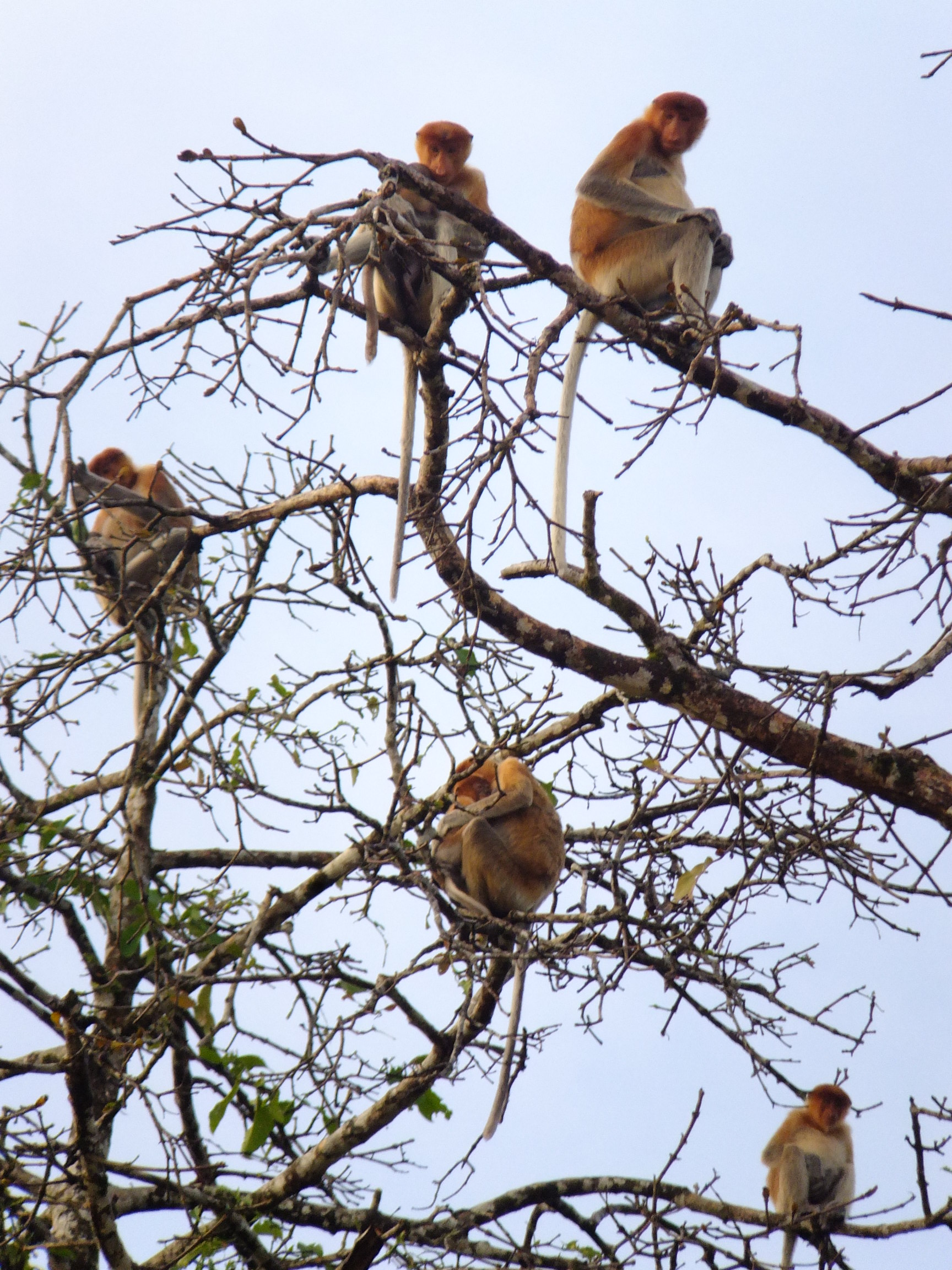 Proboscis monkeys sitting in a tree in Borneo Malaysia